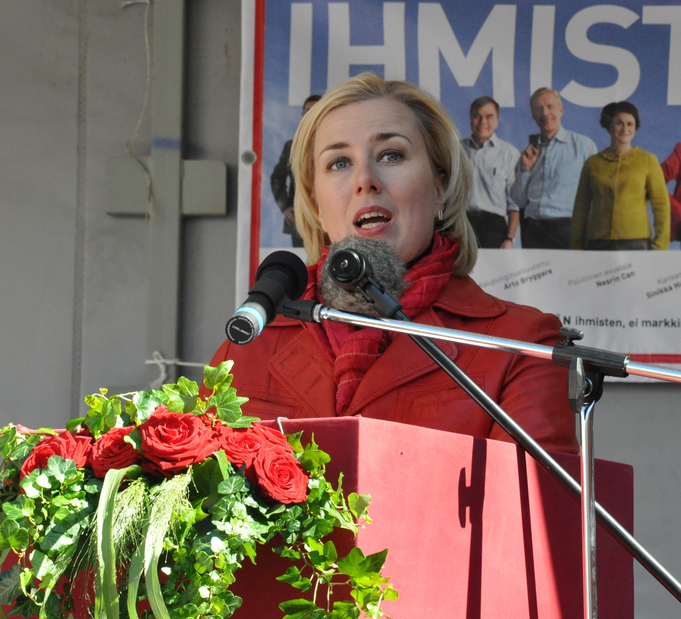 Chairman of the Social Democratic Party of Finland Jutta Urpilainen on May Day 2009 in Turku, Finland.